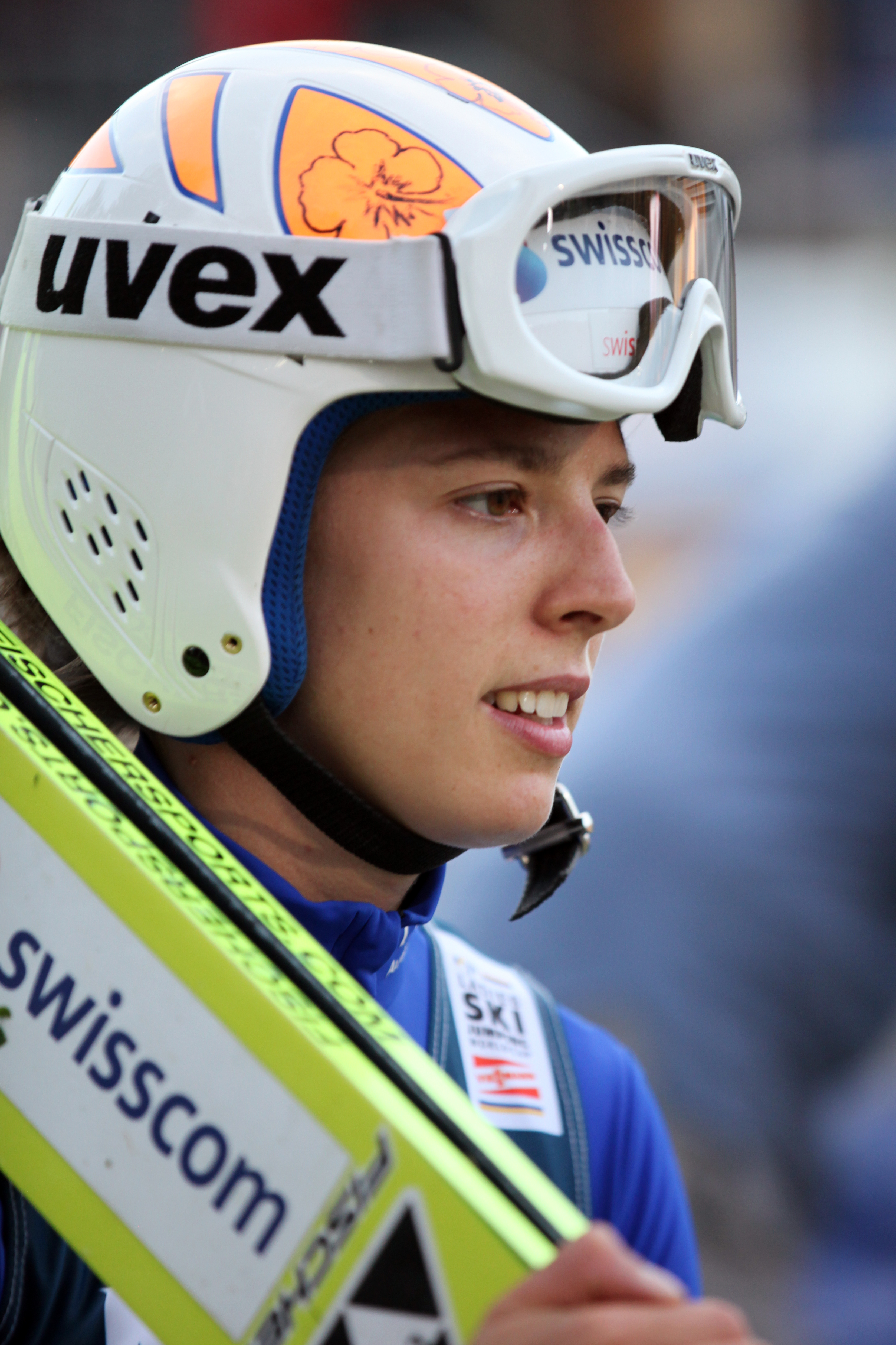 Sabrina WINDMÜLLER (WINDMUELLER) at the Summer Grand Prix Ski Jumping in Hinterzarten